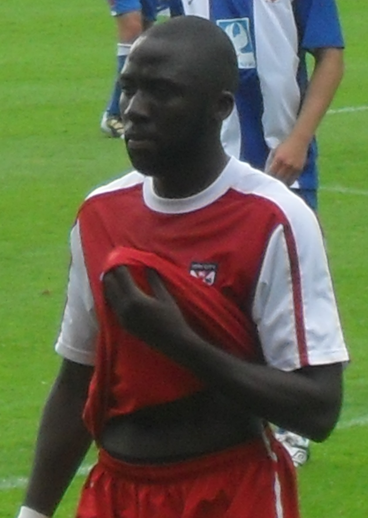 Djoumin Sangare.